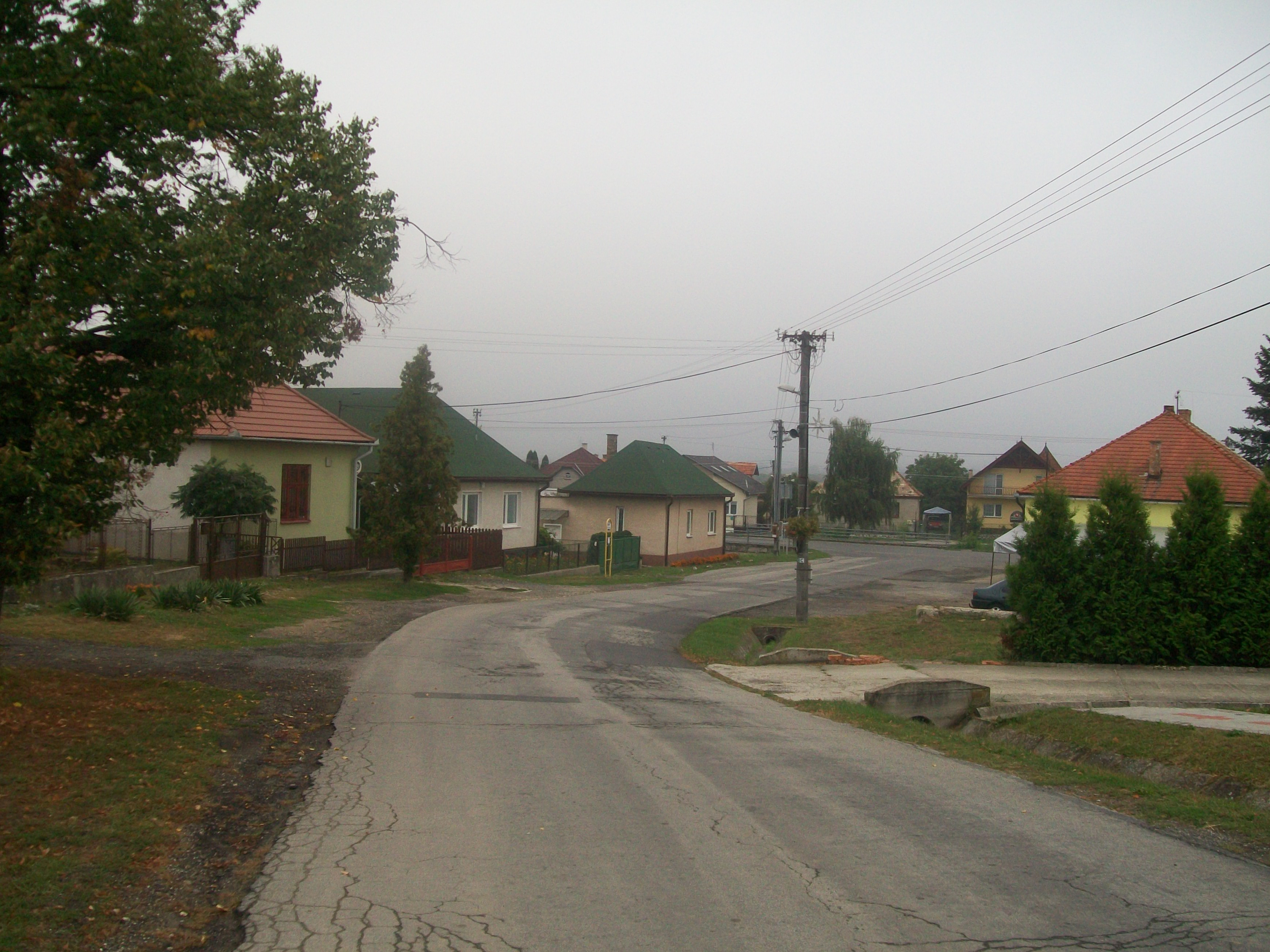 Street of the village Veľká nad Ipľom